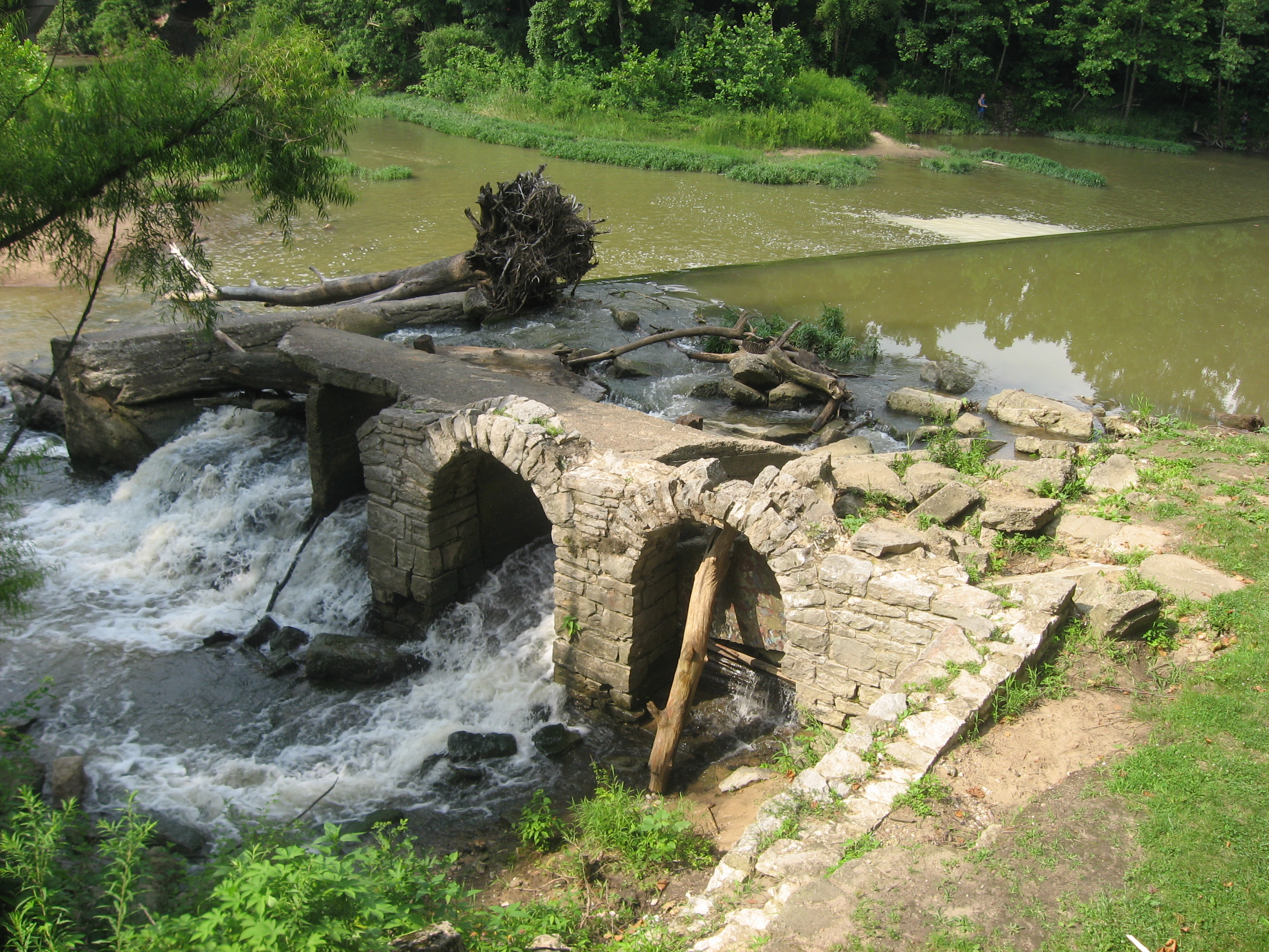 Overview of the site of the Markle Mill, located at 4900 Mill Dam Road in North Terre Haute, Indiana, United States. Built in 1817 and burned in 1938, it and the adjacent miller's house are listed together on the National Register of Historic Places. Notice the associated dam in the background.